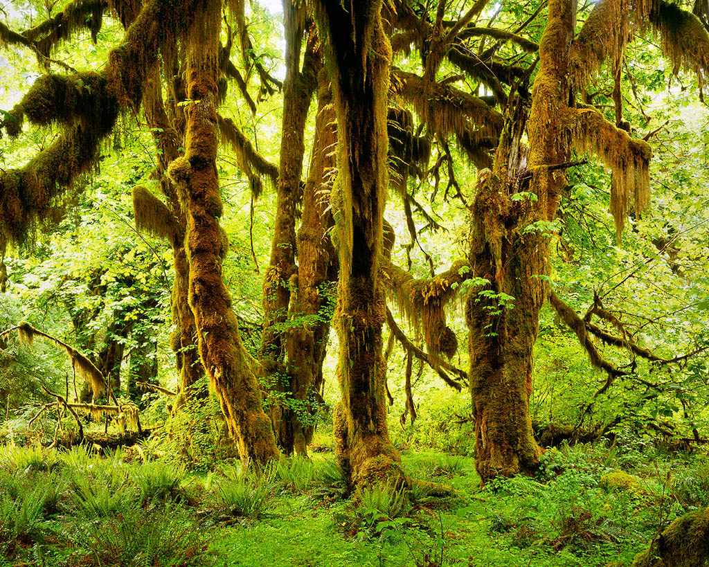 Photographed by Doug Dolde at the Maple Grove in the Hoh Rainforest, Olympic National Park. 4X5, 210mm More images from this location at